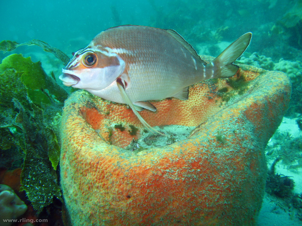 A Red Morwong (Cheilodactylus fuscus) resting on a barrel sponge. Fly Point, Port Stephens, NSW